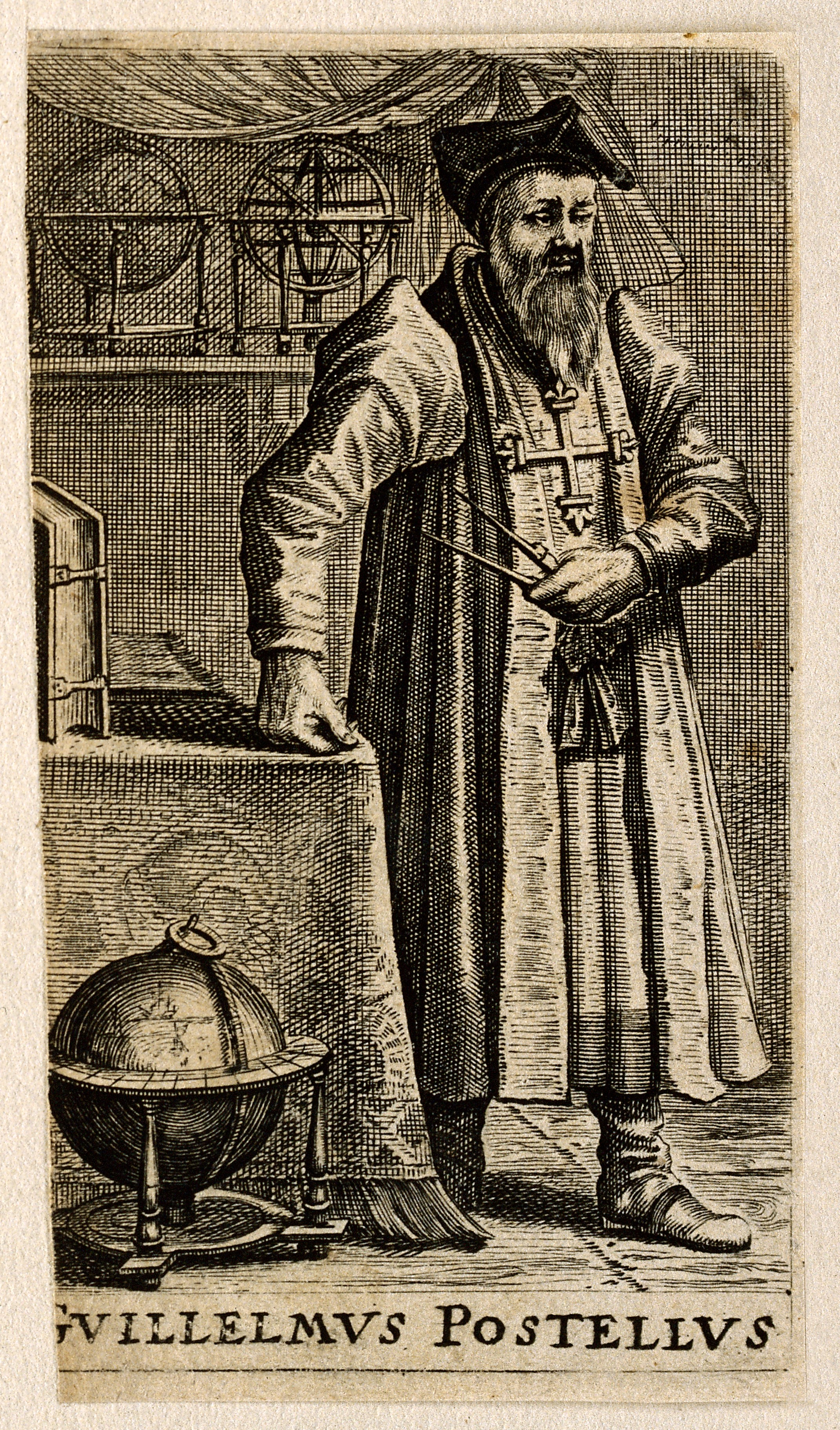 Guillaume Postel. Iconographic Collections Keywords: portrait prints; engravings; Guillaume Postel